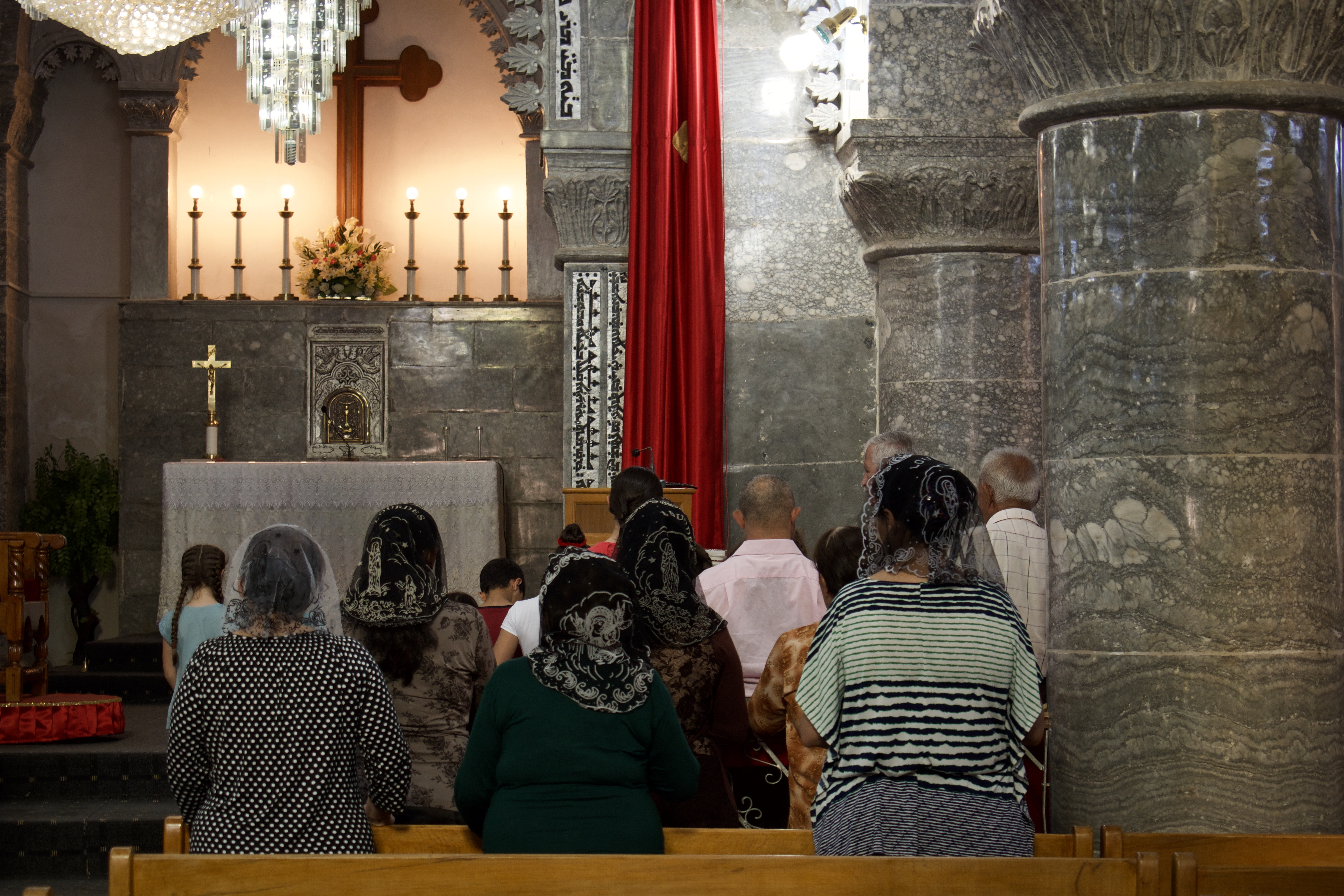 Views of the Church of Saint George in alQosh